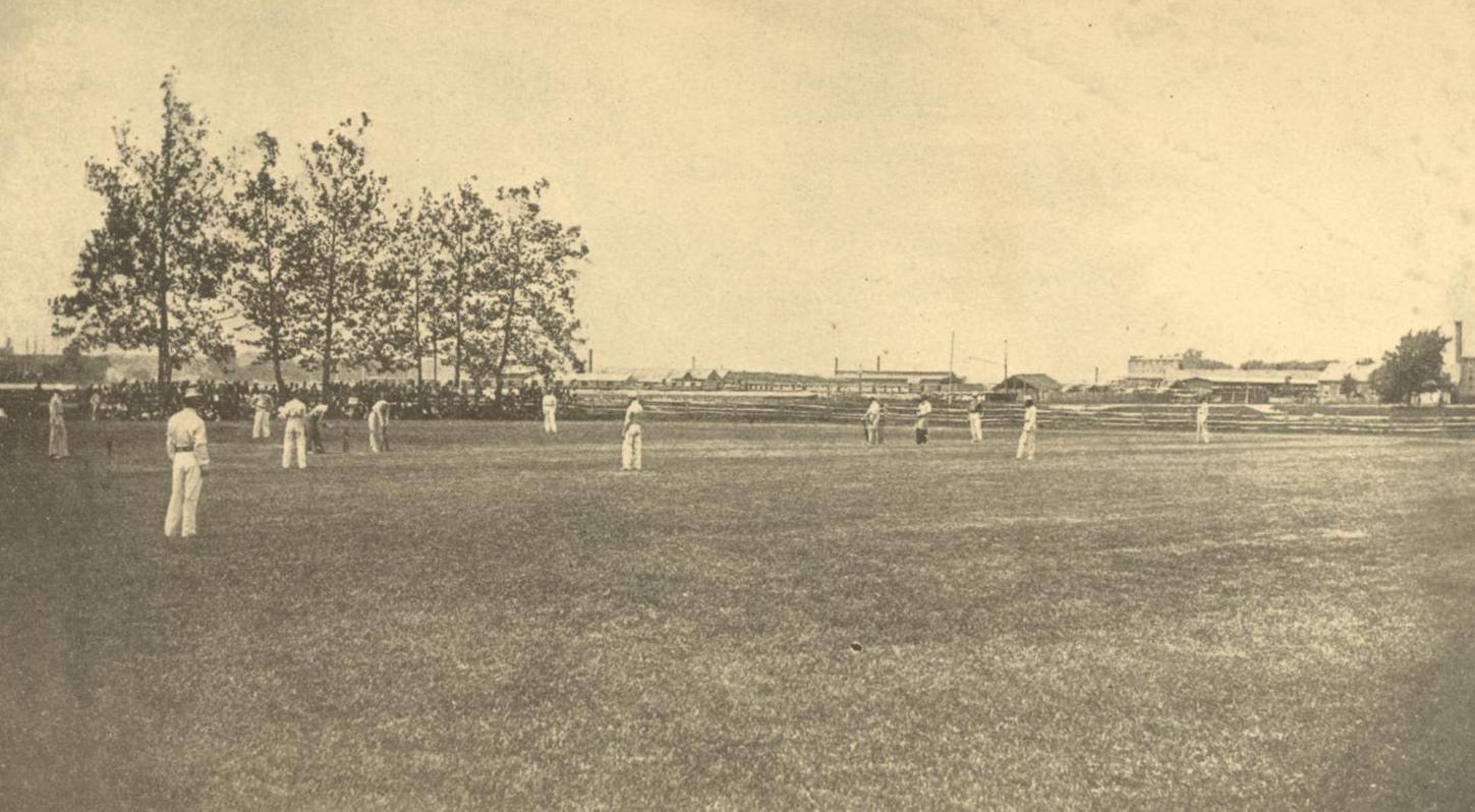 The University of Pennsylvania cricket team's first cricket ground. It was leased from the Union Cricket Club in Camden, New Jersey for use by the Penn cricket team in 1843.